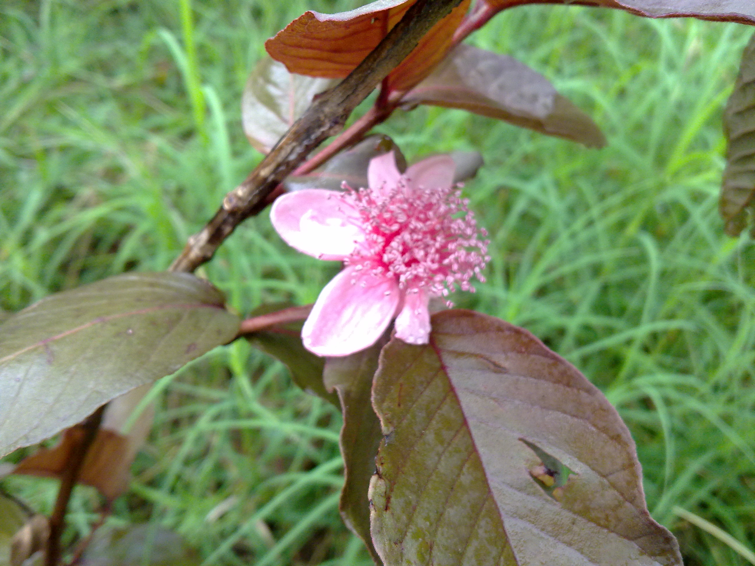 this is a black guava flower in our garden, Psidium cattleianum var. purpureum